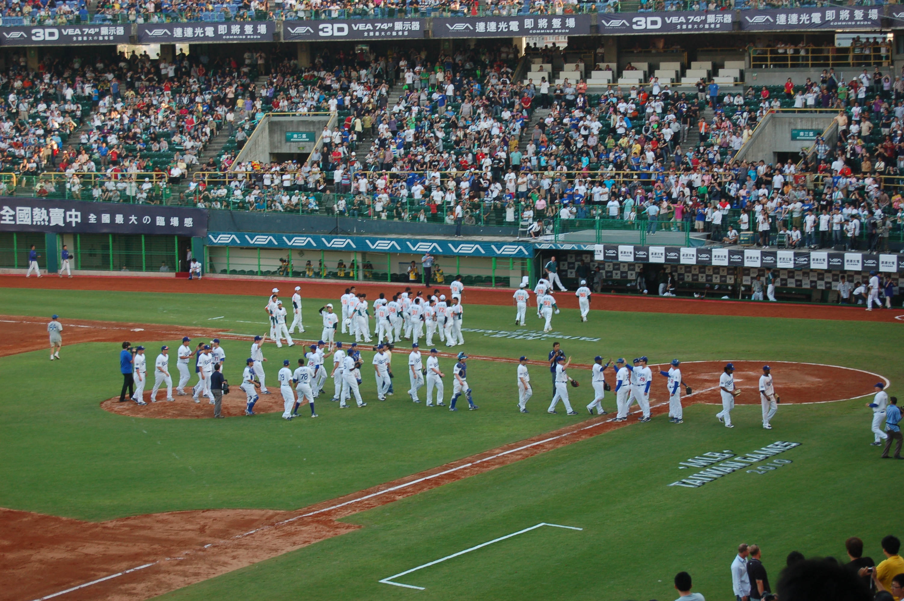 Dodgers come to Taiwan in March, and the 2010 MLB Taiwan Games will be held on March 13th and 14th.